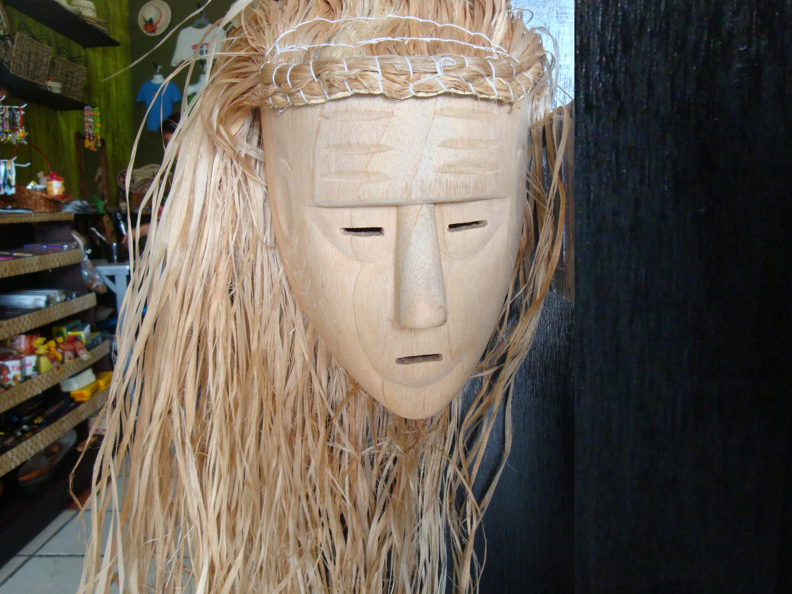 File